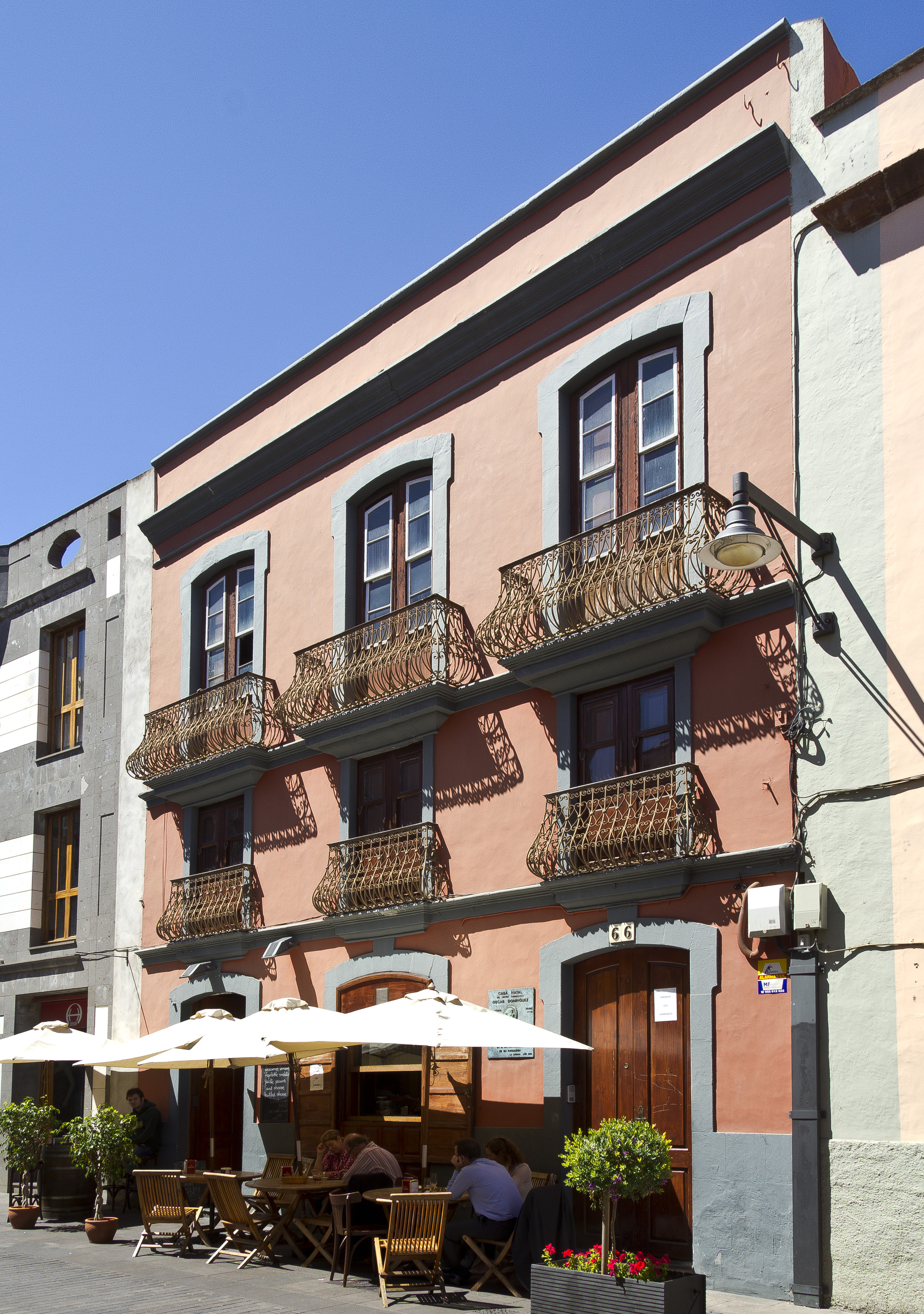 Birthplace of Óscar Domínguez in La Laguna (Spain)